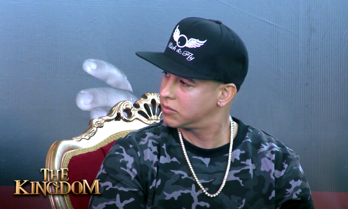 Daddy Yankee vs Don. - The Kingdom (Official Q & A) | Screenshoot starting at 3:14 sec.